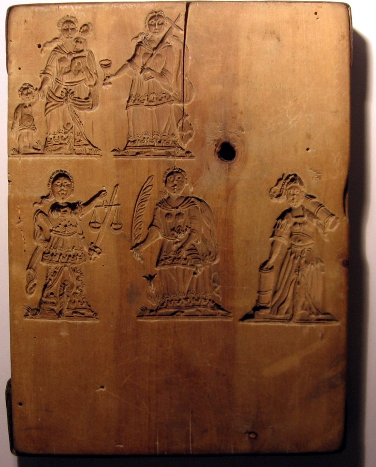 Springerle wooden mould form with rococo figures rear side